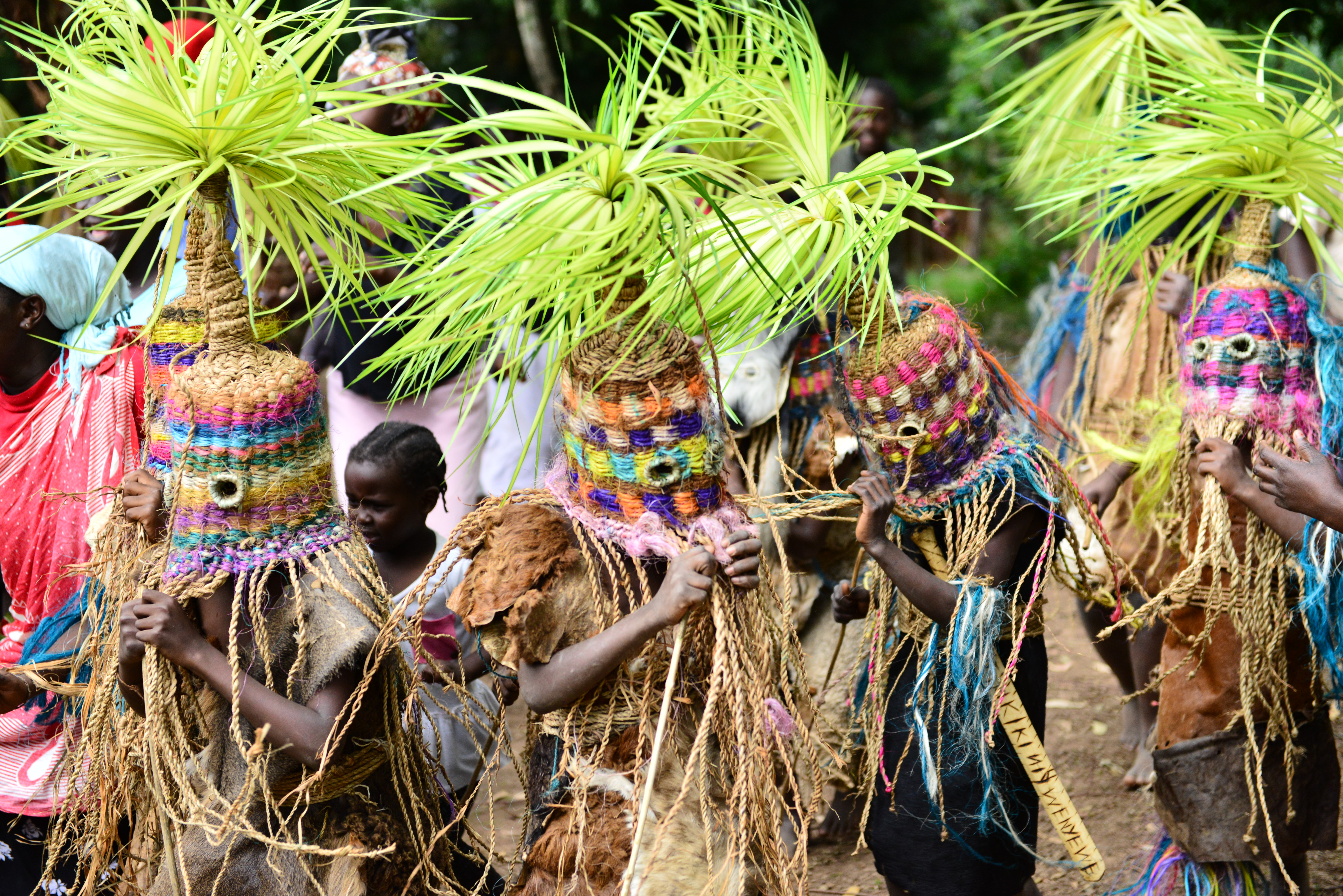 Boys from the Tiriki community of Western Kenya in traditional masks and animal hide ceremonial regalia after undergoing initiation into adulthood by circumcision and living in seclusion for four weeks This is an image of Cultural Fashion or Adornment from Kenya